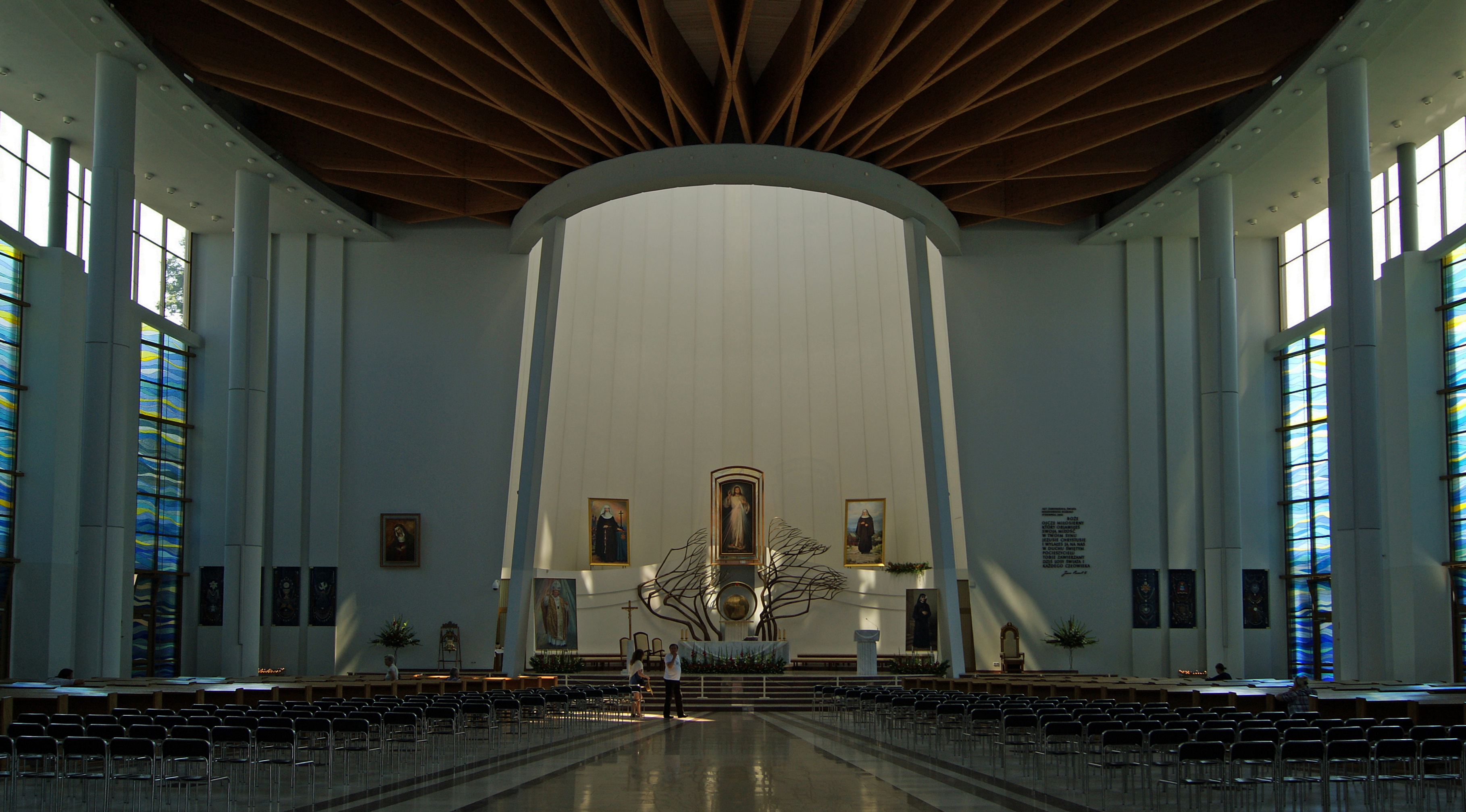 Church of the Divine Mercy (interior), 3 Siostry Faustyny street, Lagiewniki, Krakow, Poland